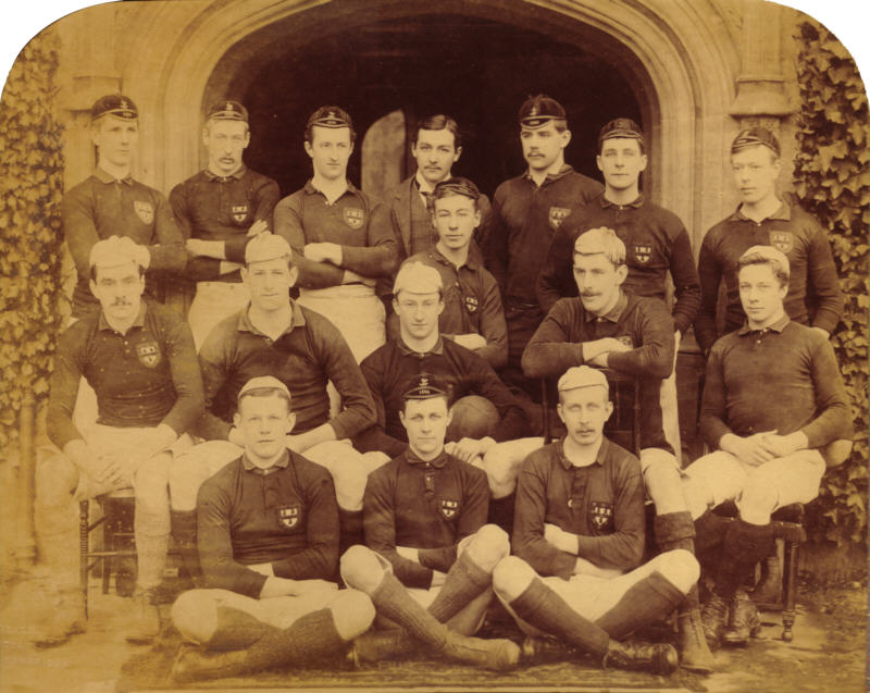 The Jesus College Cambridge Rugby union XV of 1889. The team as identified by Clifton RFC History website is: Back Row (L-R) John Stanley Manford, Charlton James Blackwell Monypenny, Bernard Wild, William John Lias, Arnold Beetham Williams, Robert James Younger, Edwin Vidal Palmer. Middle: William Irvine Rowell, Seated: Gregor MacGregor. Samuel Moses James Woods, Percy Holden Illingworth (Captain), Percy Temple Williams, Cecil Edwin Fitch. Front Row: William Martyn Scott, Charles William Chamberlayne Ingles, James Smith.